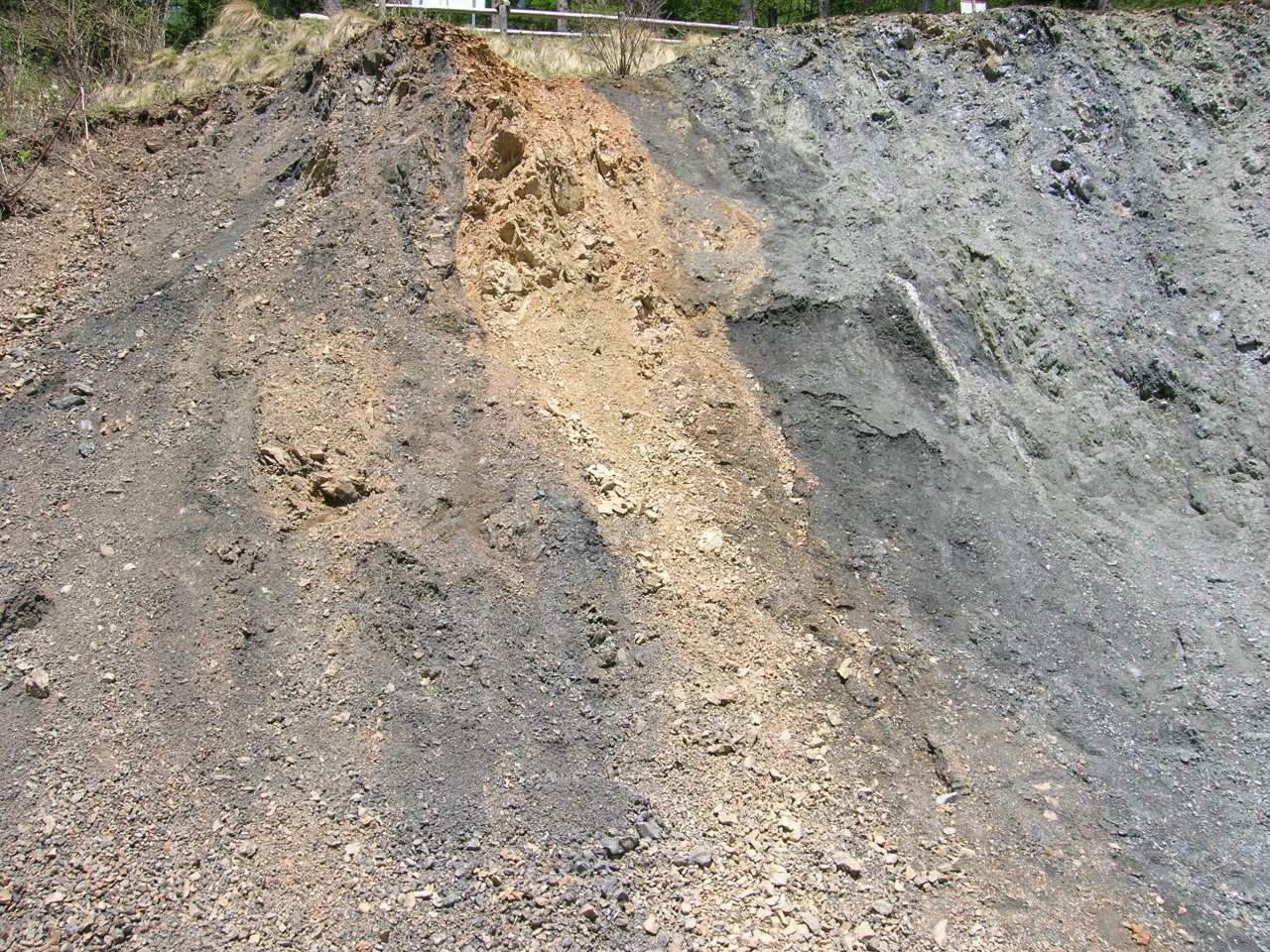 Chuou Kouzousen, Kitagawa Rotou. (Median Tectonic Line, Kitagawa outcrop.) Loc: Ōshika, Nagano Prefecture, Japan 中央構造線・北川露頭。構造線を正面(南側)から見る。 撮影場所 長野県下伊那郡大鹿村